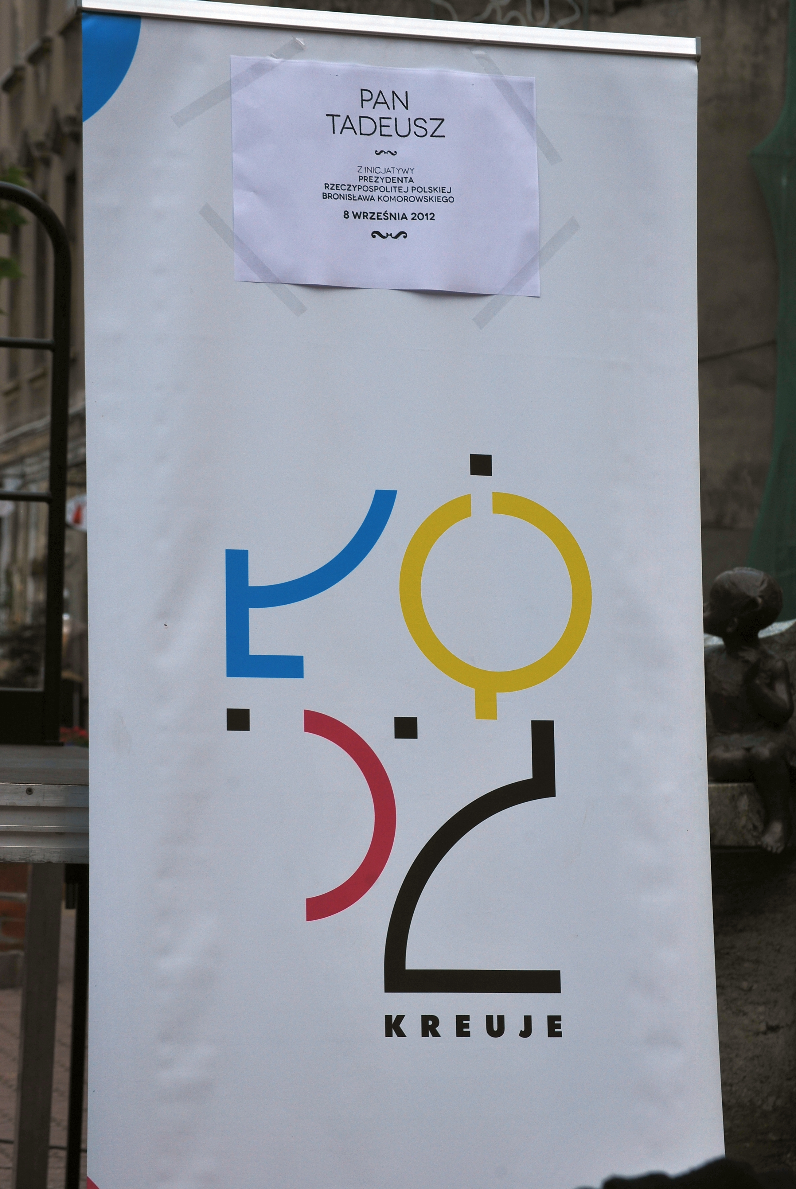 National Reading of 'Pan Tadeusz', Łódź 2012 & logo of Łódź